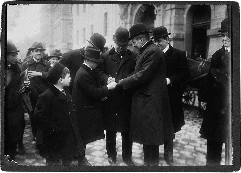 Kálmán Mikszáth hungarian writer